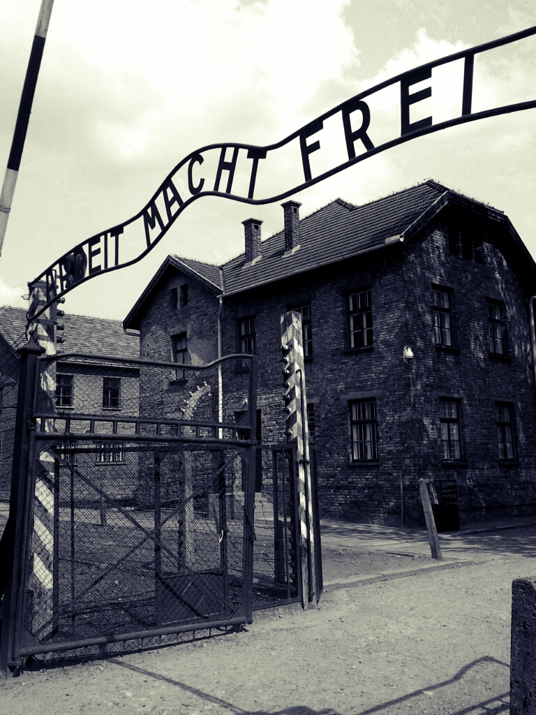 Enterance to Auschwitz concentration camp.